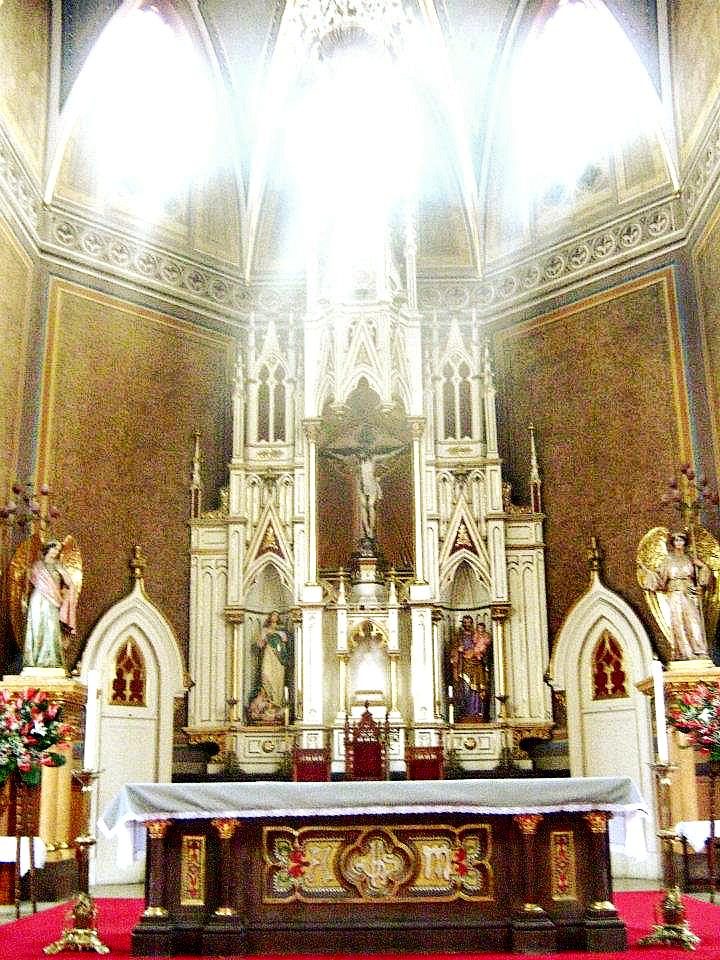 retablo y camarin del santo cristo